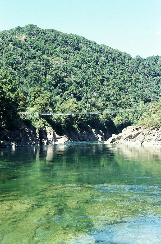 It cost five dollars just to cross the bridge, so we walked down the road a bit on the DOC chap's advice and found this vantage point. The river smelled like childhood.